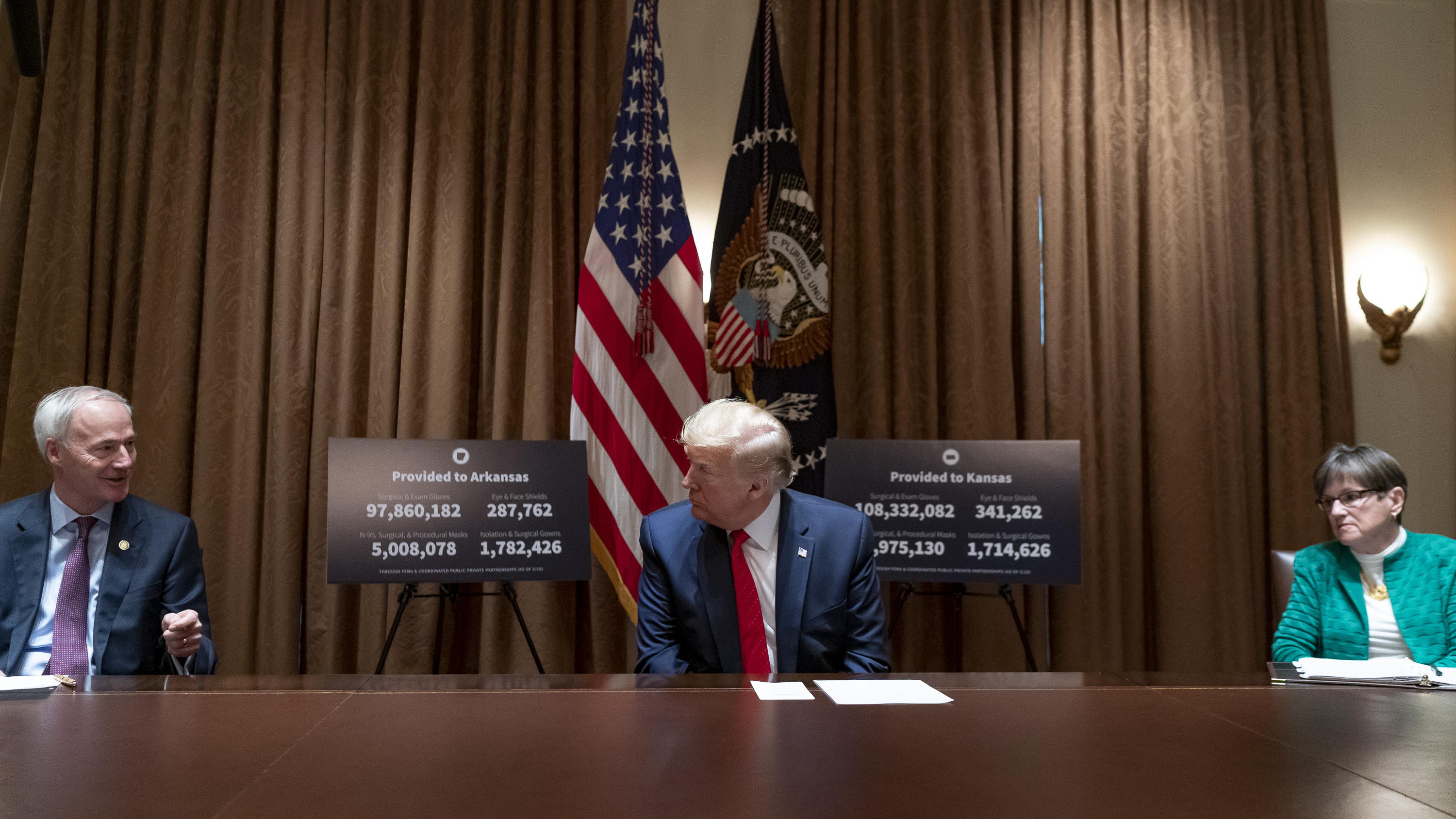 President Donald J. Trump meets with Arkansas Gov. Asa Hutchinson and Kansas Gov. Laura Kelly Wednesday, May 20, 2020, in the Cabinet Room of the White House. (Official White House Photo by Shealah Craighead)